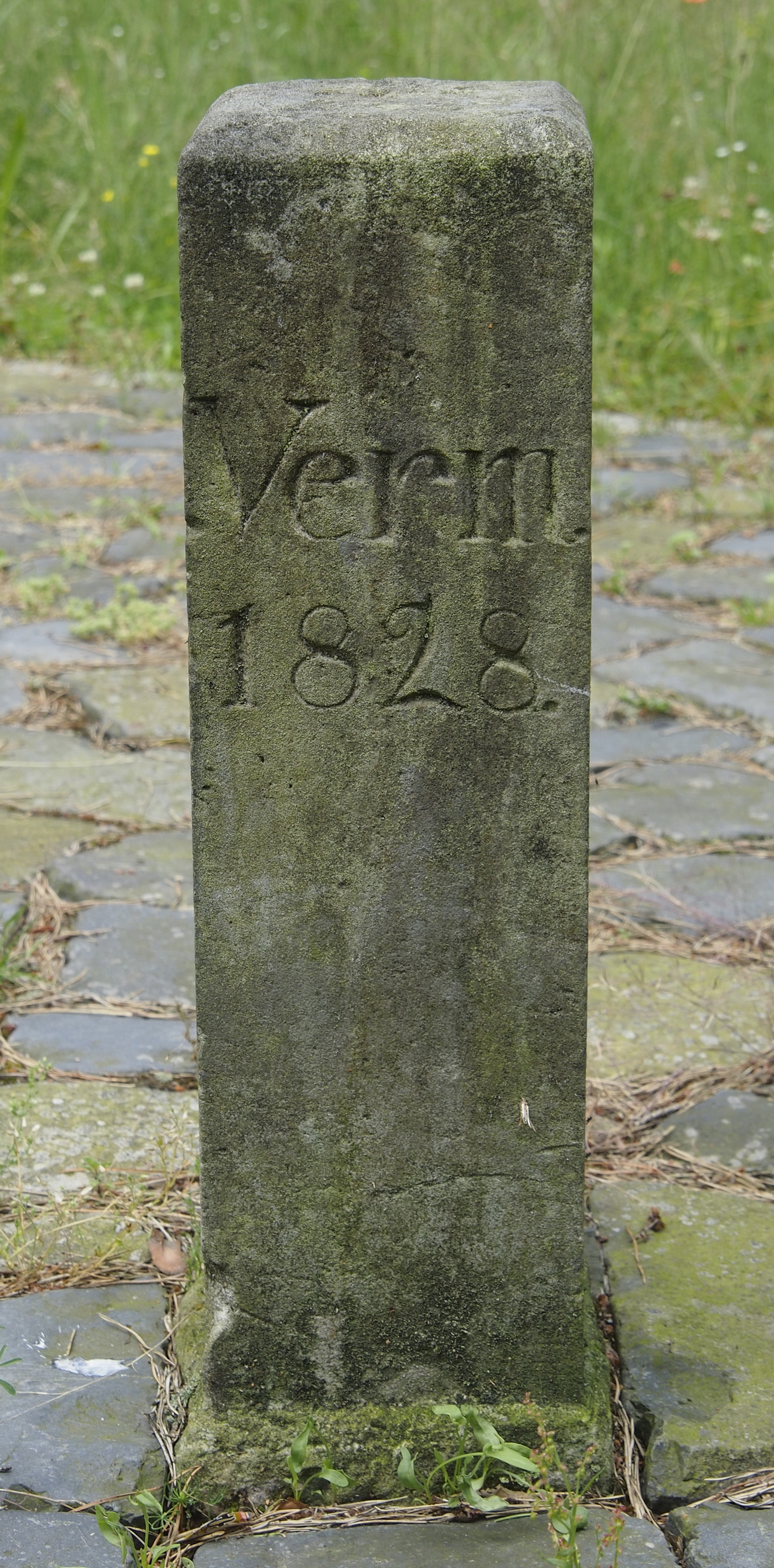 Trig point on the Breitehorn, Lüneburg Heath, Lower Saxony, Germany.